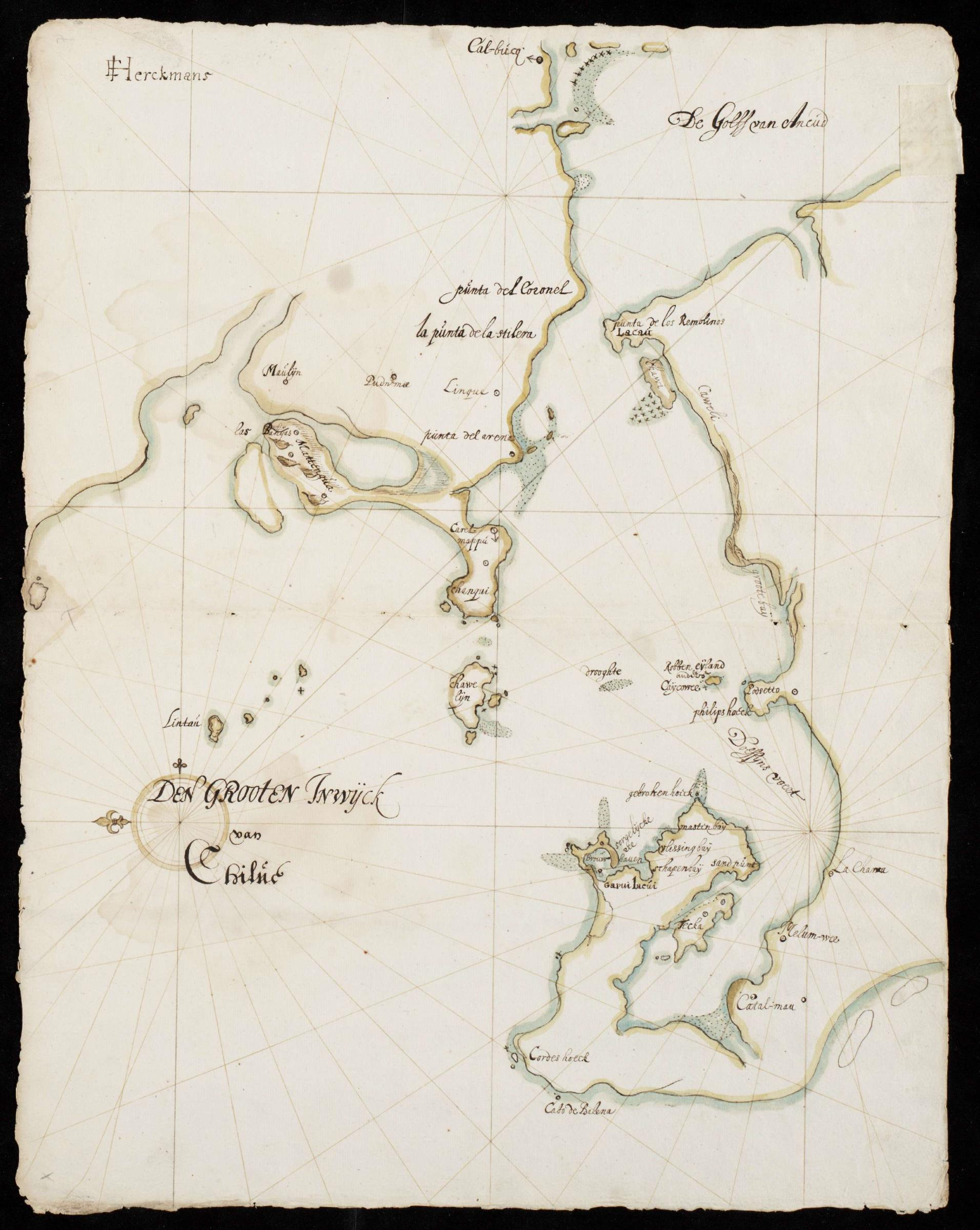 Chart of the bay of Chiloe. Title in the Leupe catalogue (Natonal Archives): Kaart van den Grooten Inwyck van Chilue. Den Grooten Inwijck van Chilue. The maps VEL0737, VEL0738 and VEL0739 in the National Archives all derive from the same travel journal by E. Herckmans, dating from 1643.